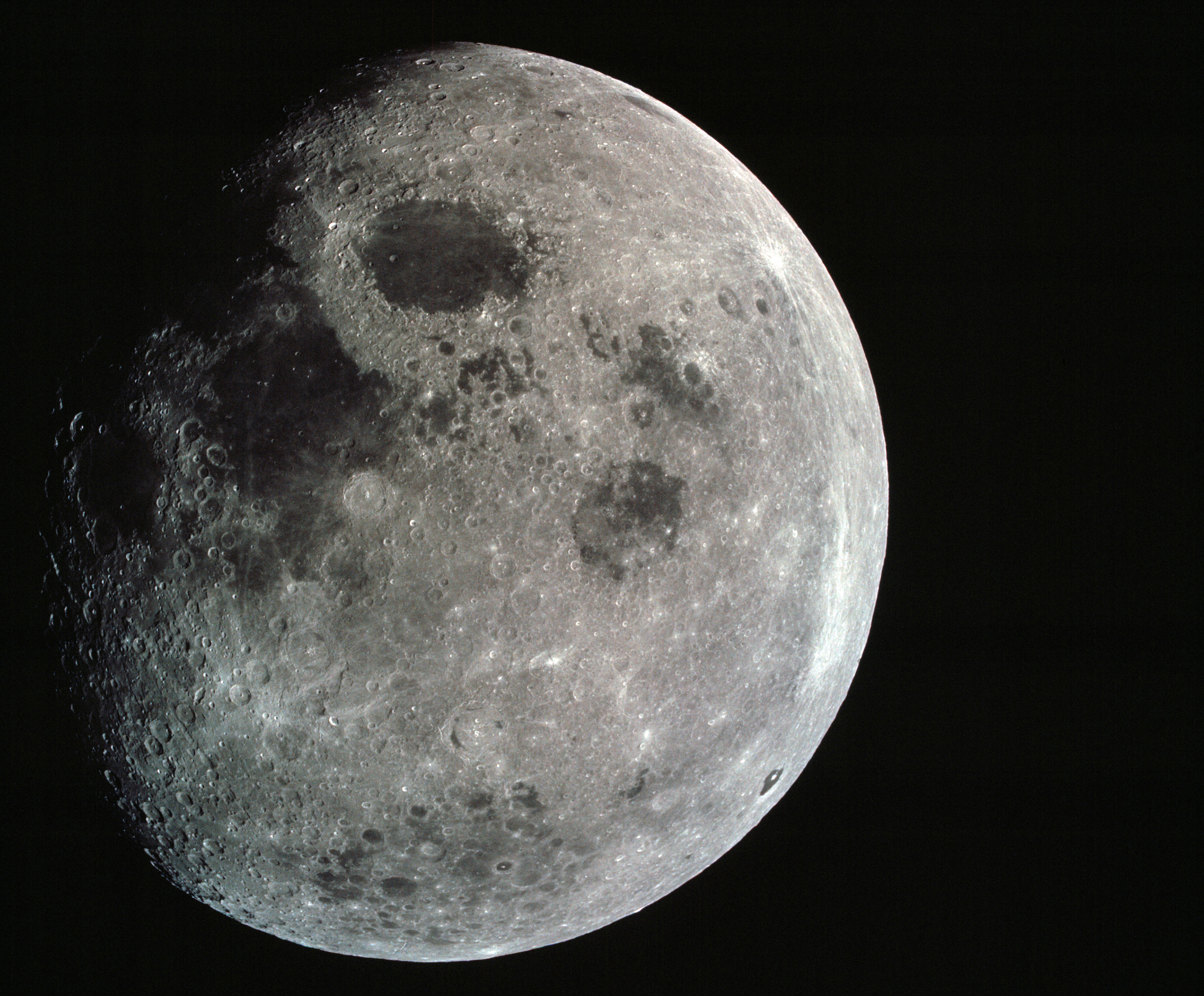 This photograph of a nearly full moon was taken from the Apollo 8 spacecraft at a point above 70 degrees east longitude. (Hold picture with moon's dark portion at left). Mare Crisium, the circular, dark-colored area near the center, is near the eastern edge of the moon as viewed from Earth. Mare Nectaris is the circular mare near the terminator. The large, irregular maira are Tranquillitatis and Fecunditatis. The terminator at left side of picture crosses Mare Tranquillitatis and highlands to the south. Lunar farside features occupy most of the right half of the picture. The large, dark-colored crater Tsiolkovsky is near the limb at the lower right. Conspicuous bright rays radiate from two large craters, one to the north of Tsiolkovsky, the other near the limb in the upper half of the picture. These rayed craters were not conspicuous in Lunar Orbiter photography due to the low sun elevations when the Lunar Orbiter photography was made. The crater Langrenus is near the center of the picture at the eastern edge of Mare Fecunditatis. The lunar surface probably has less pronounced color that indicated by this print.